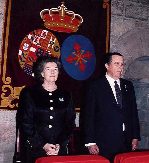 TRH the Infante D. Carlos, Duke of Calabria and Princess Anne, Duchess of Calabria, at a Mass of the Order in Barcelona